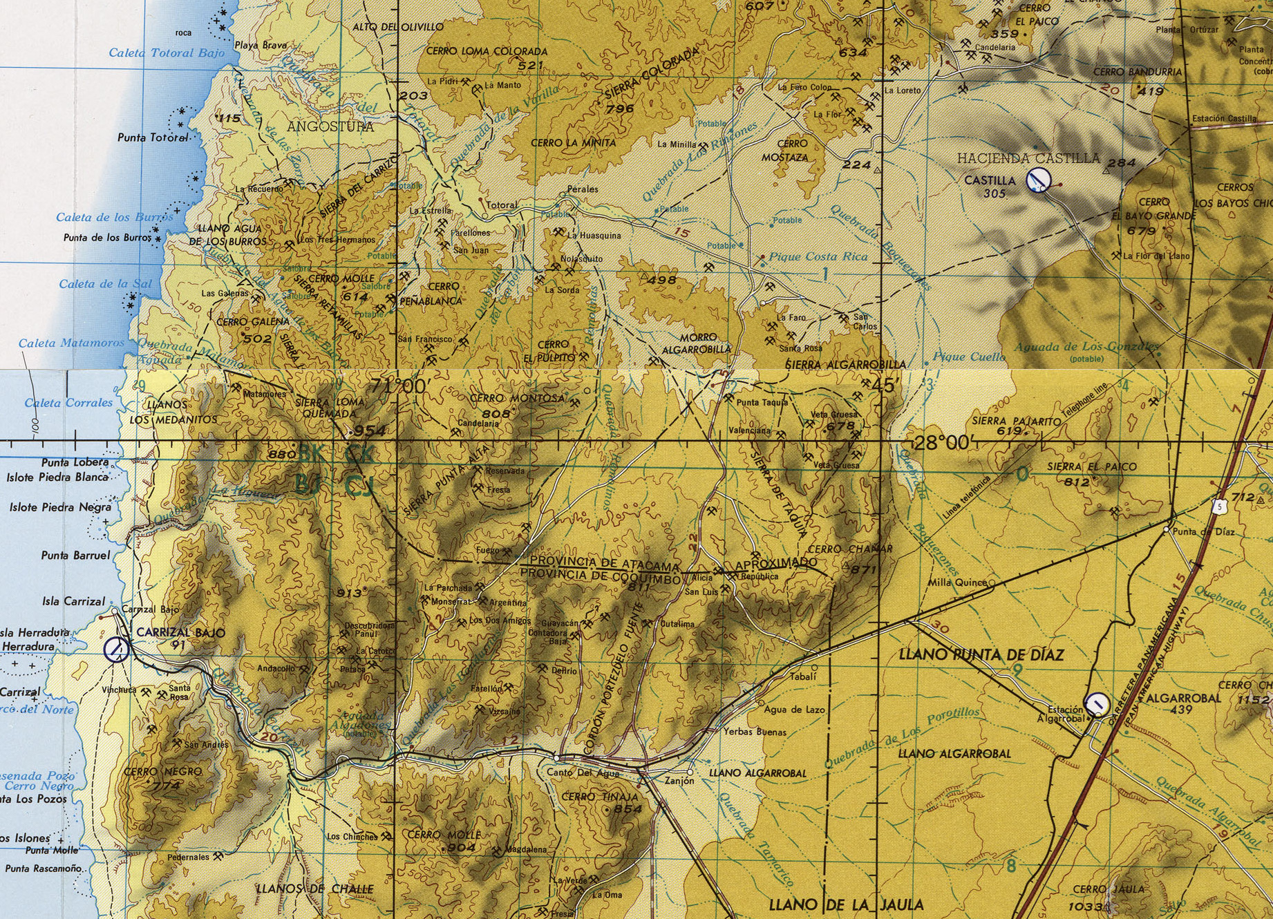 La quebrada de Algarrobal se bifurca en q. de Carrizal y q. de Totoral